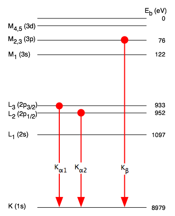 Levels involved in Cu K x-ray emission